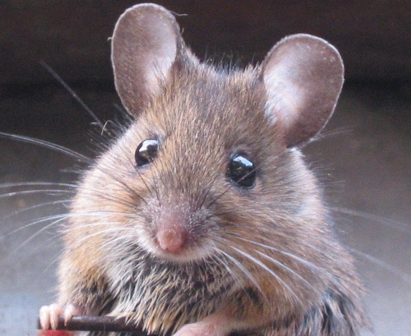 Wood mouse (Apodemus sylvaticus) – wrong filename!